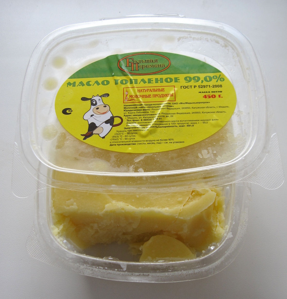 Russian Масло Топленое (Maslo Toplenoe) is also called Топлёное масло, which literally means "melted butter". It is clarified butter or ghee. This packet was produced in the town of Медынь (Medyn) in Kaluga Oblast, which is to the south west of Moscow.